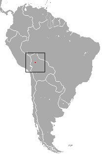 Ollala Brothers' Titi (Callicebus olallae) range